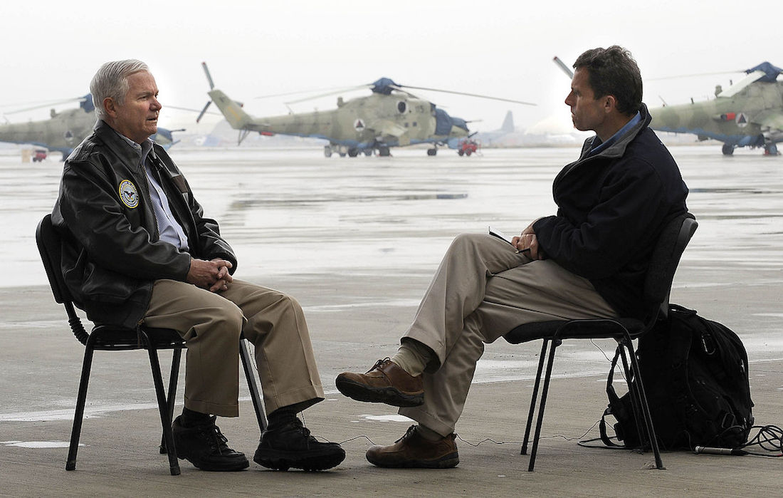 Terry McCarthy interviewing Secretary Gates at Bagram Airfield in Afghanistan.